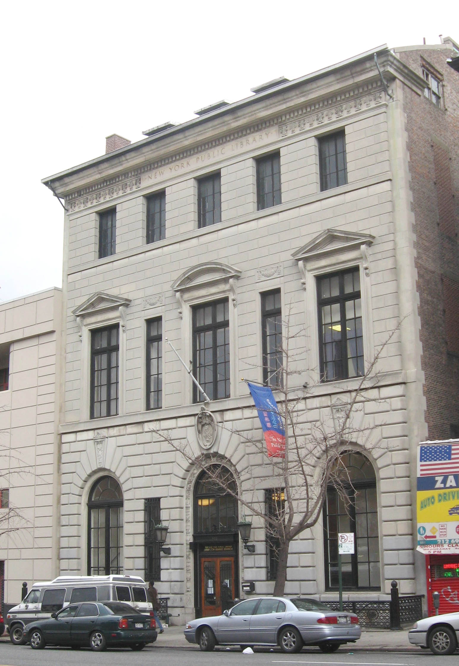 Looking north across 135th Street at Hamilton Grange Branch, NYPL on a cloudy midday. NYCLPC designation 1970.